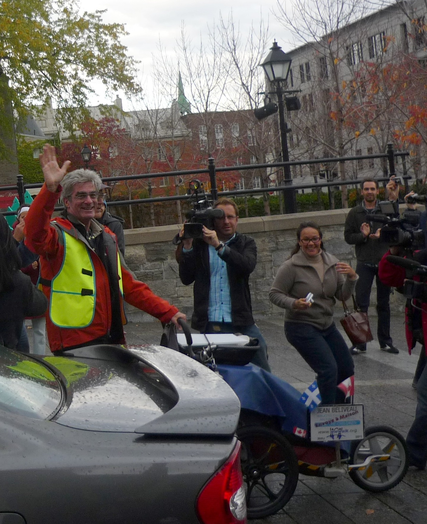 Arrival of Jean Béliveau in Montreal, October 16, 2011, after a 11 years walk around the world. Photo taken Place Jacques-Cartier.